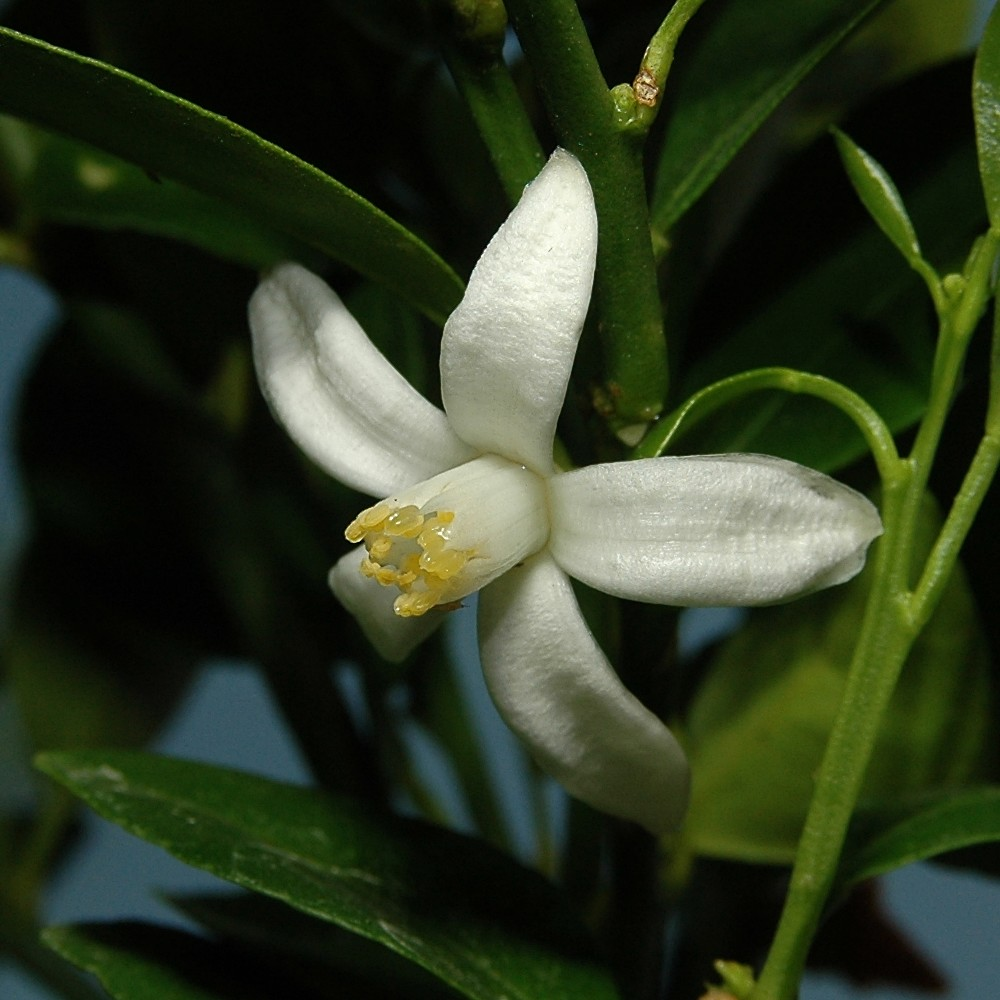 Citrus limon, own plant